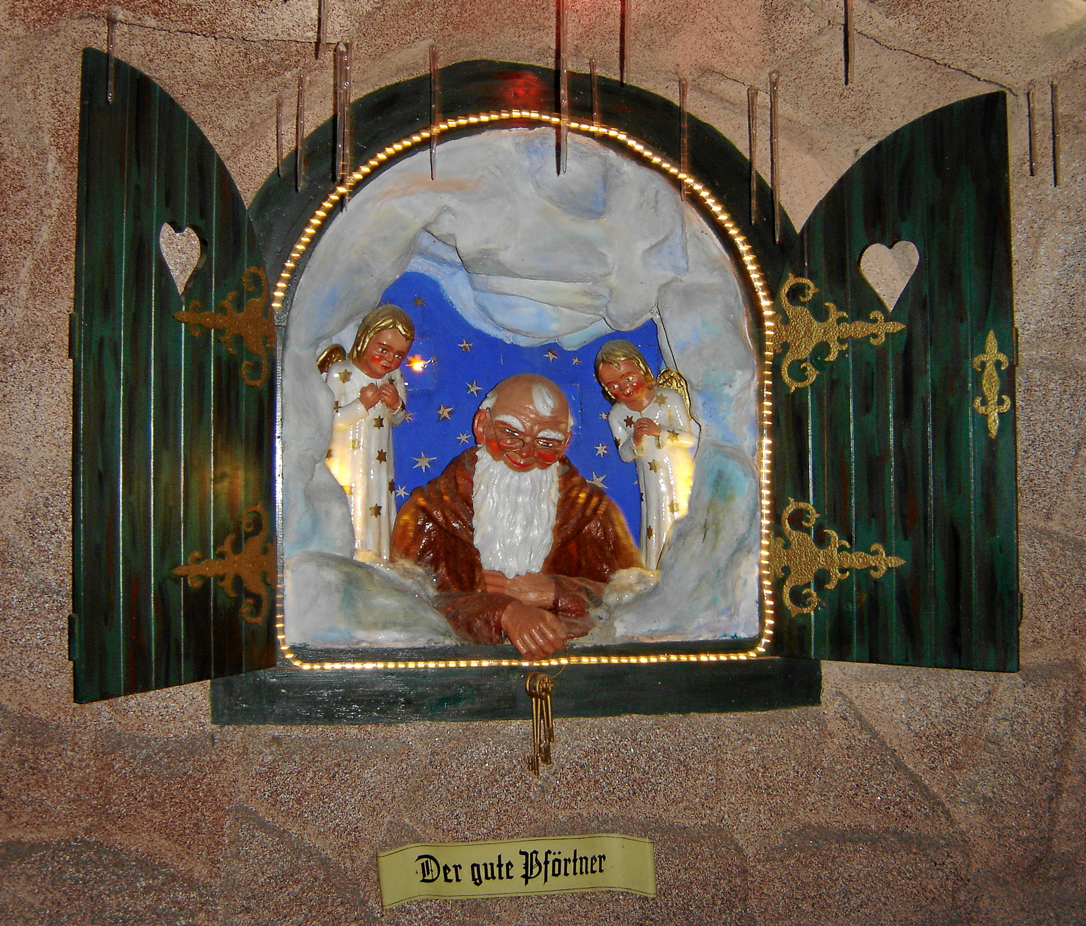 "Der gute Pförtner" (the good porter) greets visitors to the Grottenbahn in Linz.